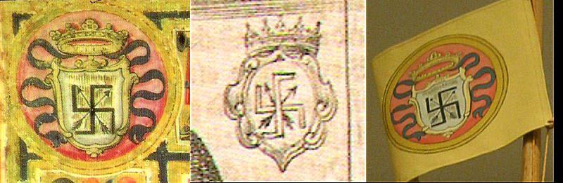 Blasons of Hasekura Tsunenaga. Left image: from Hasekura's Act of Roman Citizenship. Middle image: from the German edition of Hasekura's travels to Europe. Right image: Flag of Hasekura's ship, personal photograph from Sendai Museum, released in the Public Domain.